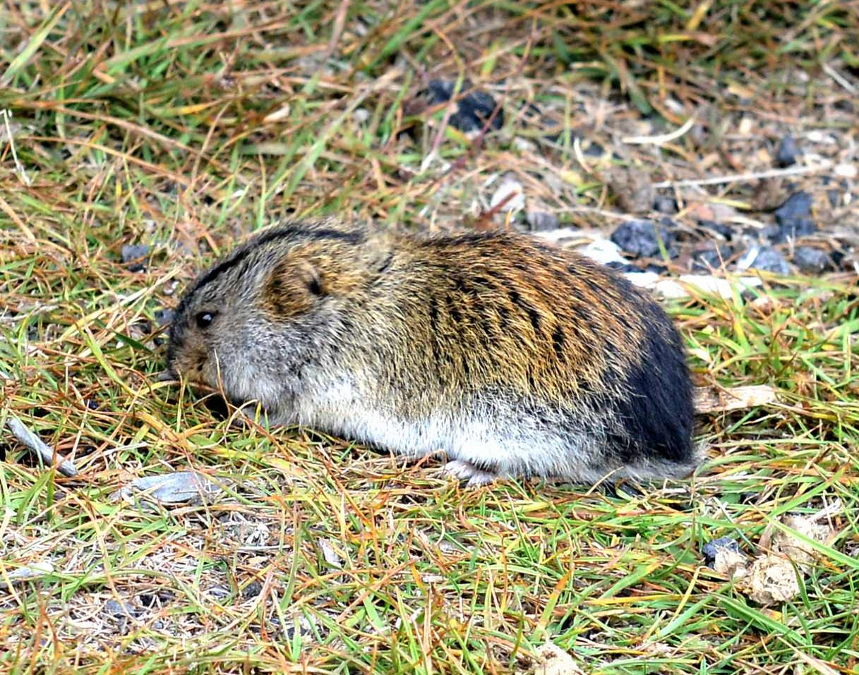 Somnitelnaya: On Wrangel Island endemic lemming (Wrangel Island, Chukchi Sea, Russia)